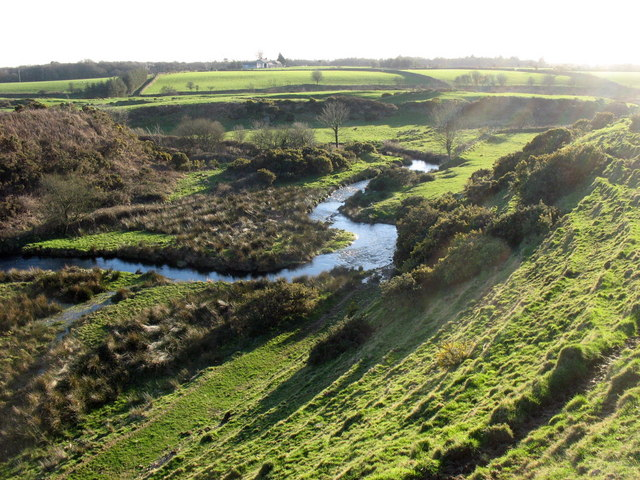 Near to Llwyndyrys, Gwynedd, Wales, Great Britain. A meandering reach of Afon Erch upstream of the elbow of capture. The 90 degree bend in the course of the river marks the point of river capture. The wind gap through which the river formerly flowed can be seen on the right. Soil creep terracetes are a prominent feature of the slope in the foreground.